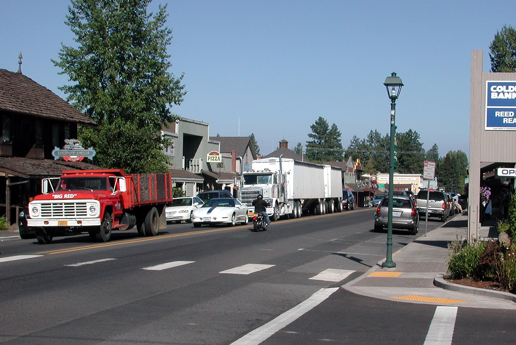 Looking east along Cascade Avenue, the main street in Sisters, Oregon, United States.